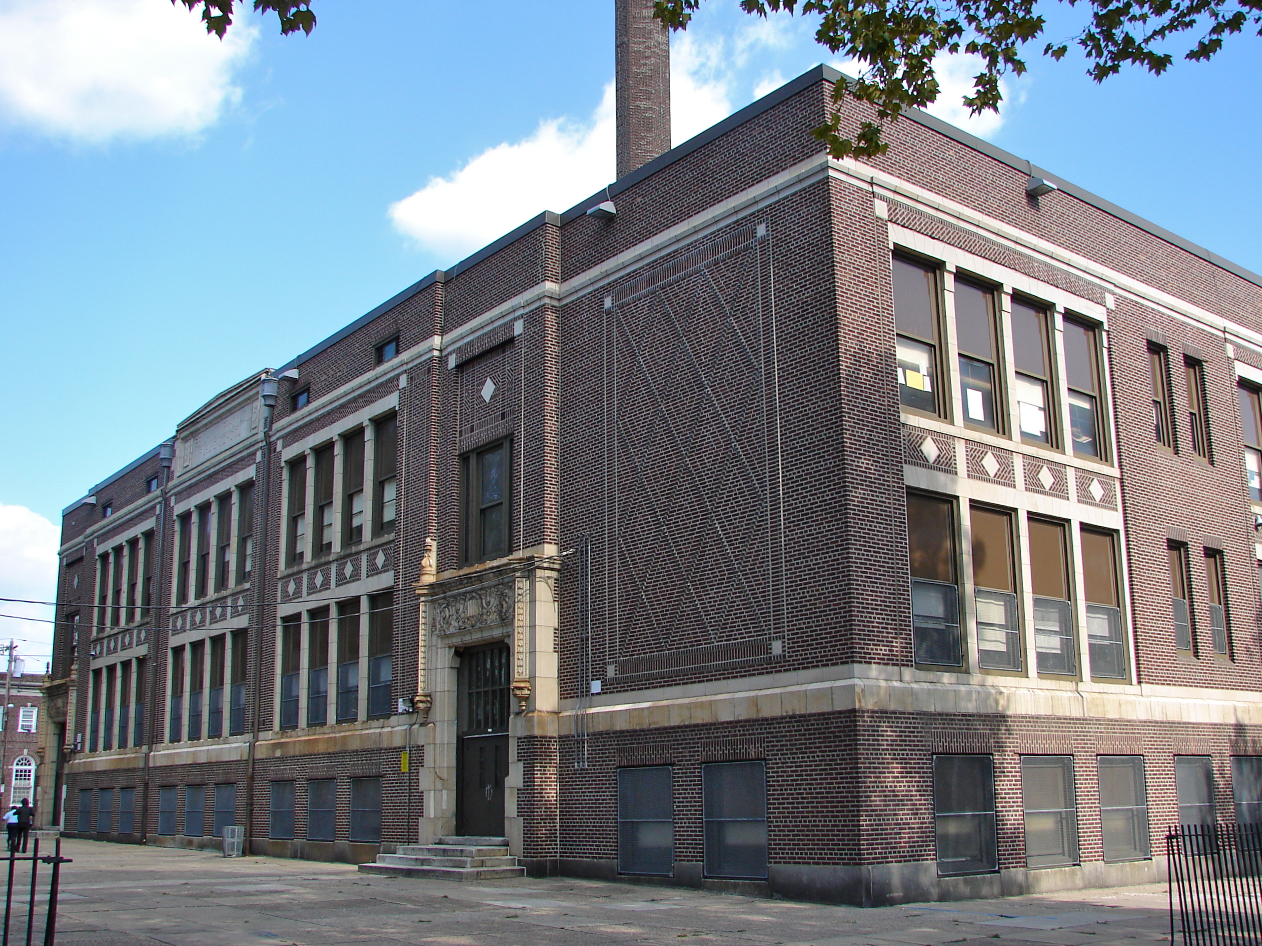 Benjamin Franklin School in Philadelphia on the NRHP since November 18, 1988. At 5737 Rising Sun Avenue in the Crescentville neighborhood of NE Philly.